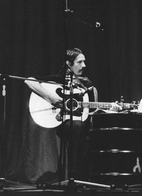 Čundrgrund, czech folk-rock group, Baráčnická rychta (Tržiště 255/23?), Prague, 6. september 1977, Petr Kalandra